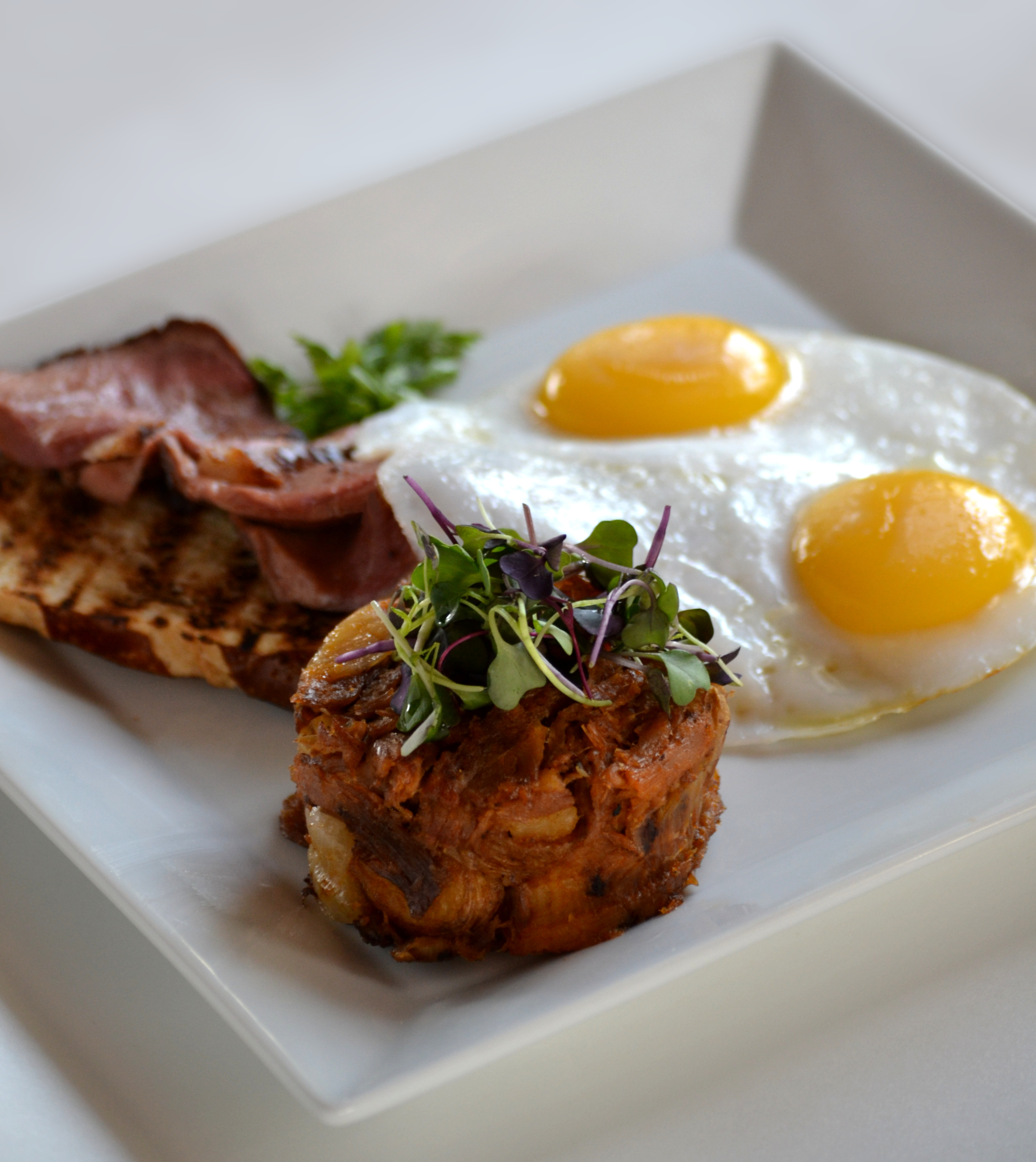 A brunch entrée, titled as such due to the fact that it has two duck eggs, duck confit, and roasted duck magret.